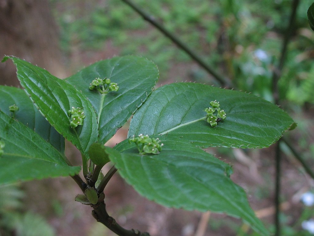 Photograph of Helwingia_japonica(male flowers on leaves),taken in Machida city, Tokyo, Japan.